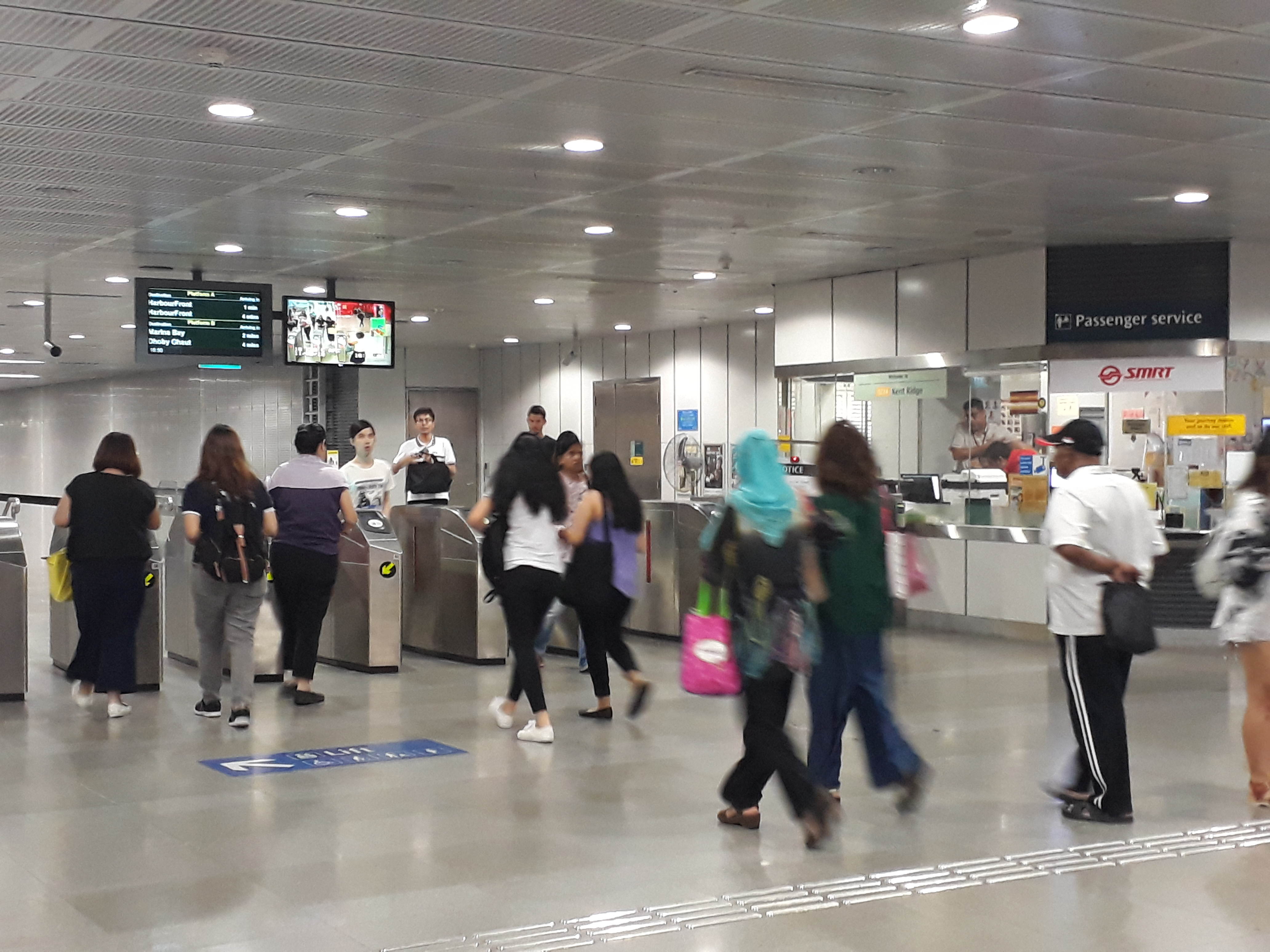 Concourse of Kent Ridge Station